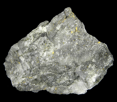 Gold, Quartz Locality: Phillips Mine, Alma, Alma District, Park County, Colorado, USA (Locality at ) Size: 7.5 x 6.1 x 4.1 cm. A rare matrix Gold specimen from the classic mining district around Alma, Colorado. The piece features small patches of bright Gold set against a gemmy to opaque grey Quartz matrix having a slickenside surface. This piece is from the Richard A. Kosnar Colorado collection, (specimen number 55/143), and his label indicates that it was mined circa 1870. The Phillips Lode (mine) was located in 1860 by Joseph Higginbotham, aka "Buckskin Joe", whom the gulch in which this mine (and several other including the Sweet Home) was named after. The back of the label states that this piece was once part of the Butler family collection (G. Montague Butler, Bert S. Butler and Waldo Butler). Bert S. Butler wrote many USGS Professional Papers during the 1920s and 1930s, and Rich Kosnar obtained much of his collection from his son Waldo.